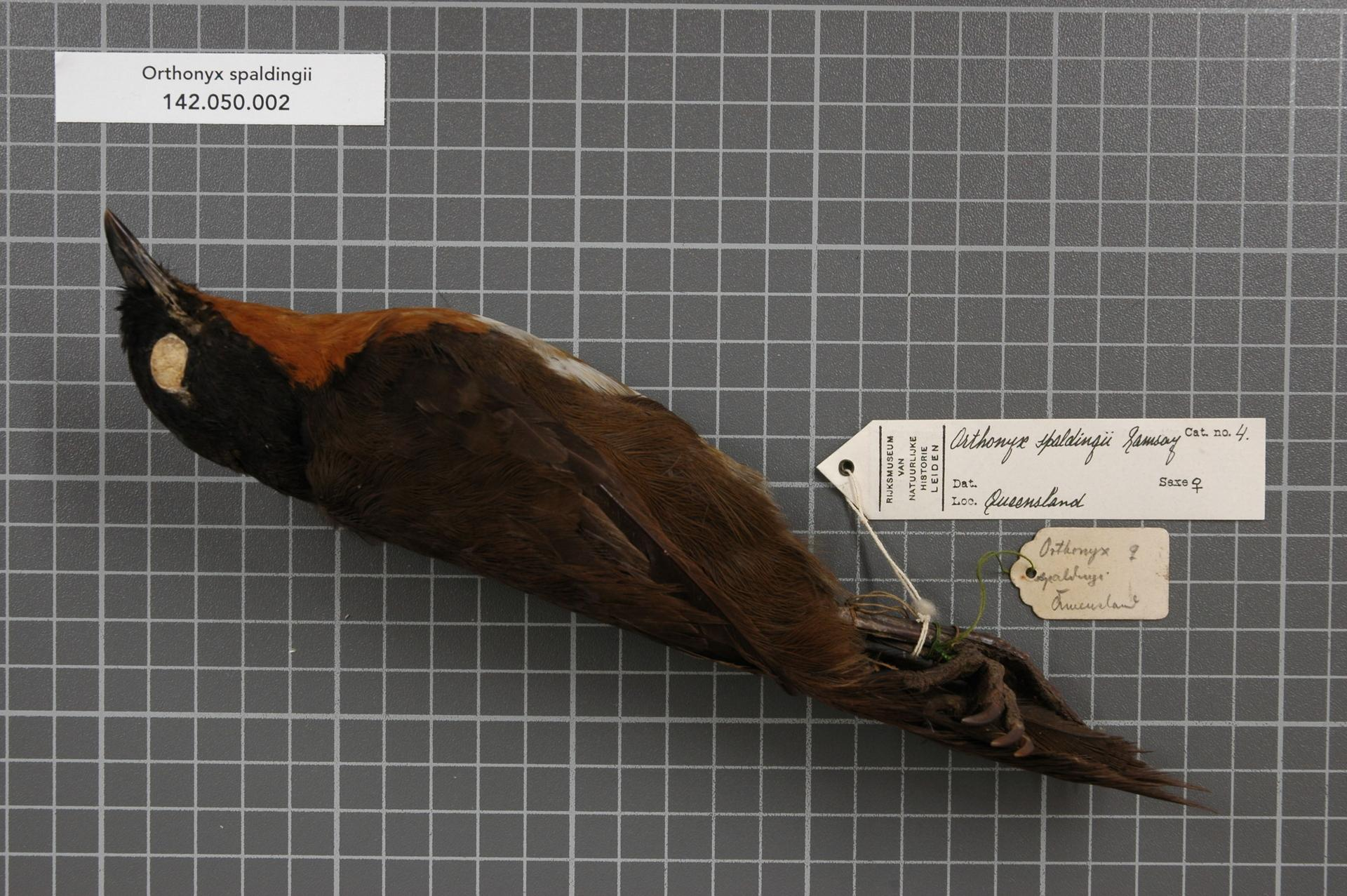 Orthonyx spaldingii Ramsay, 1868